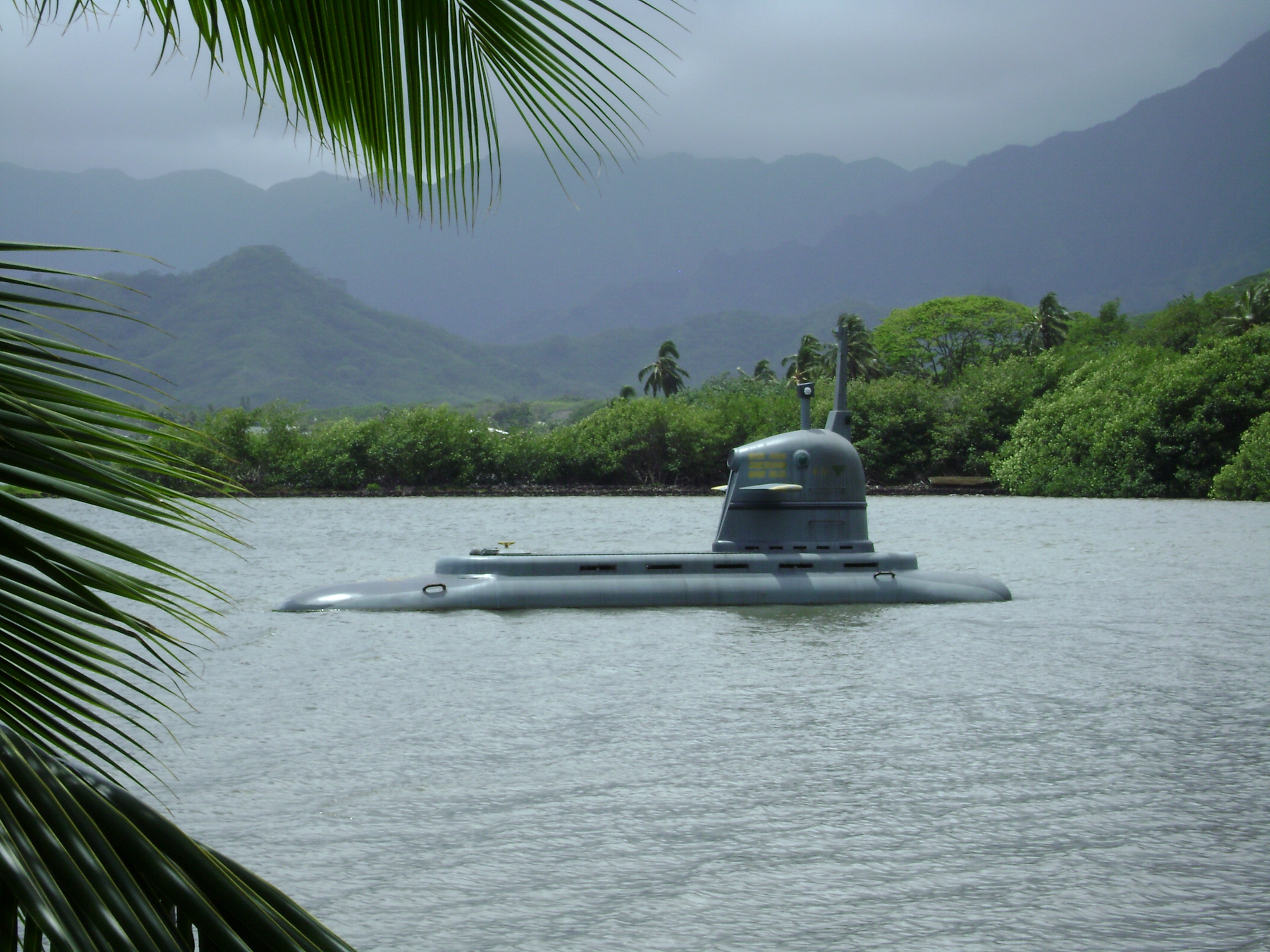 Photo of the submarine used in various episodes of Lost